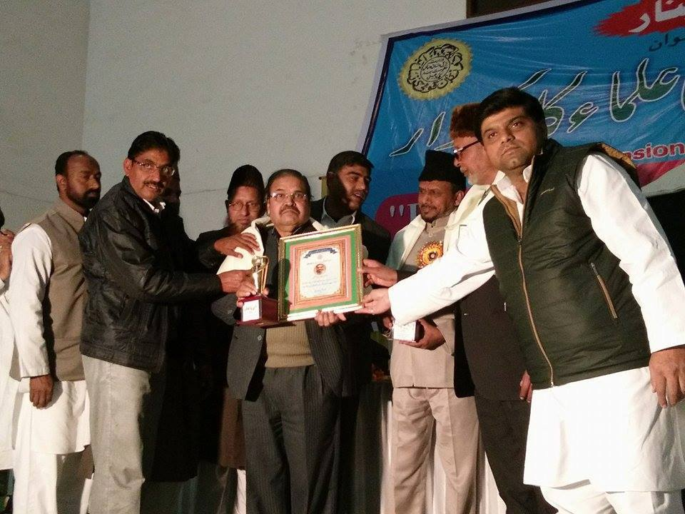 Barqi Azmi Receiving Mohammad Ali Johar Award